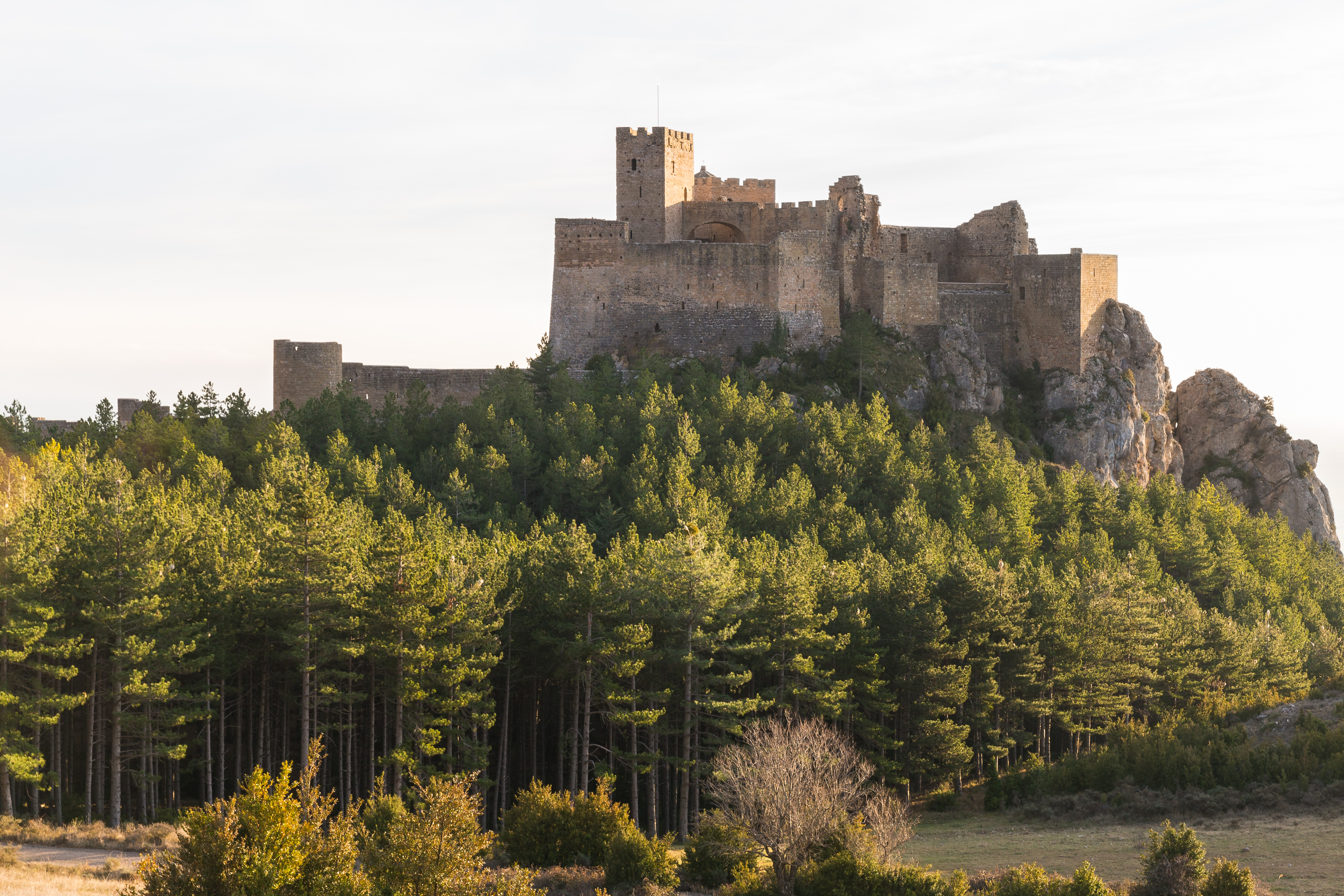 Loarre Castle, Loarre, Huesca, Spain